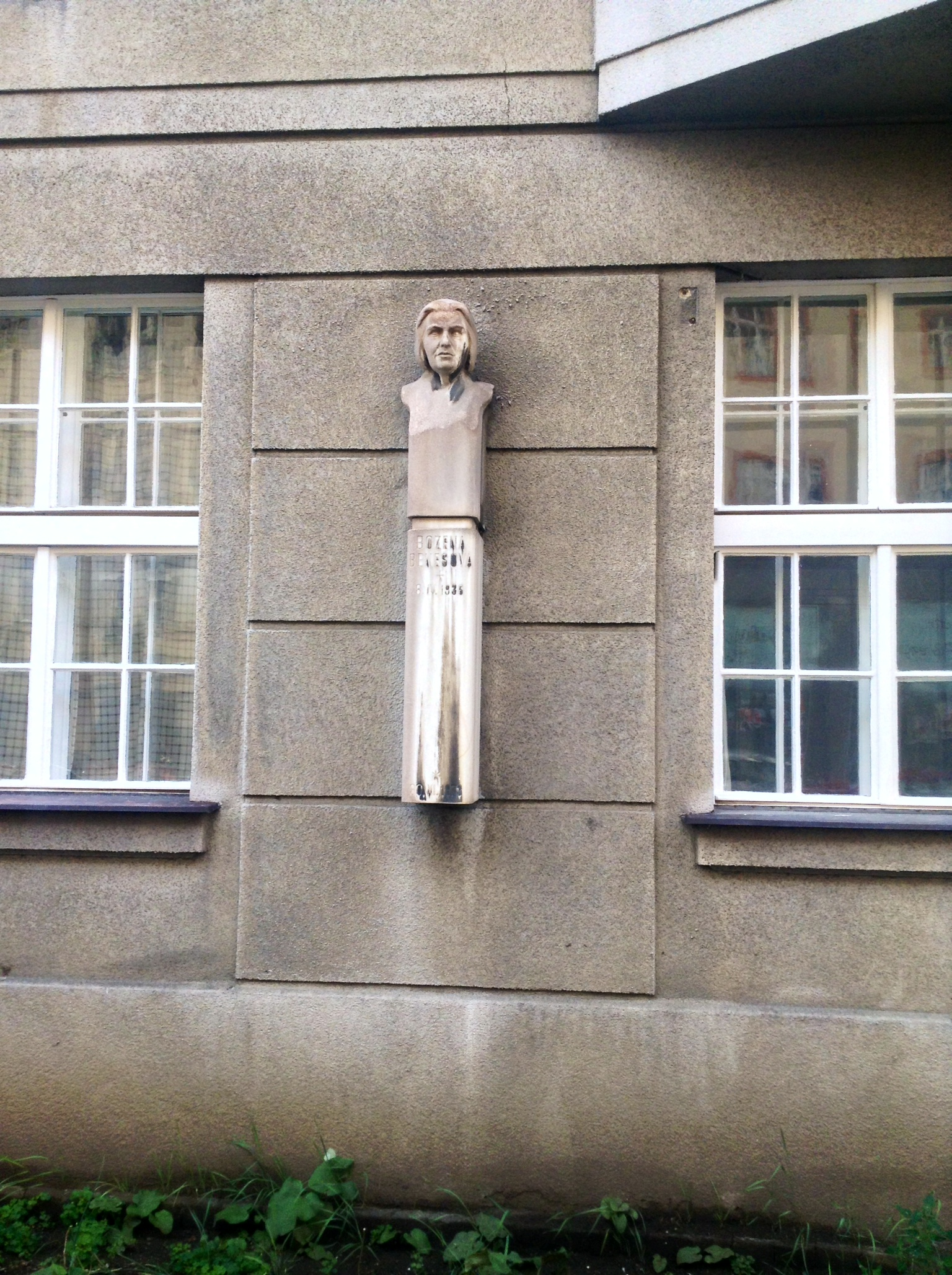 Memorial sandstone bust of Božena Benešová